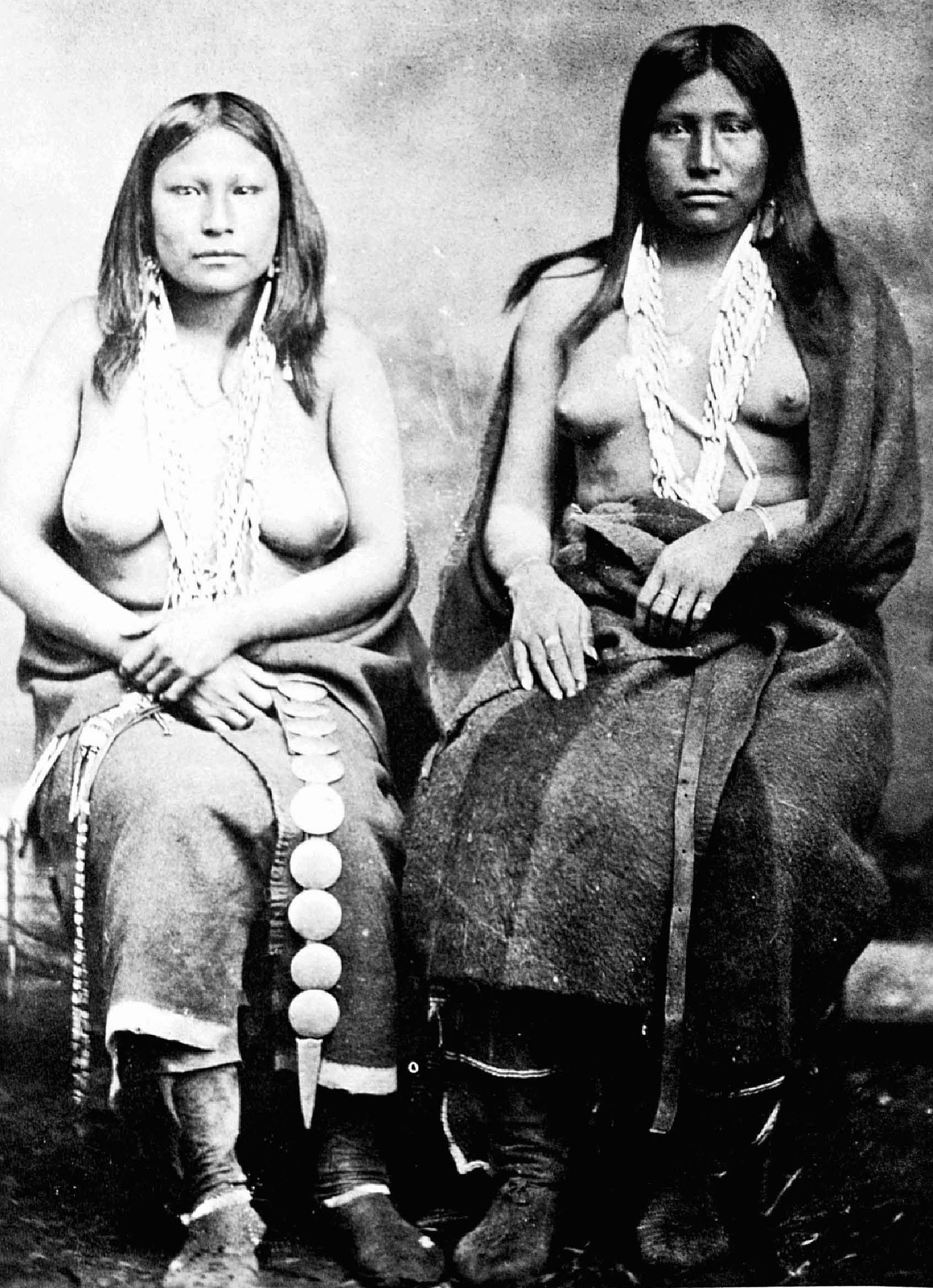 Wichita women. ""Wichita women were well dressed from the waist down." The women of the other southern Plains tribes - Cheyenne, Arapaho, Comanche, Kiowa - were by present-day standard excessively modest in their dress. The Wichitas at first constituted an exception, but the Quaker agents and the missionaries soon brought them into line. Before these women learned that it was wrong to appear in public partly nude, Soule obtained a series of photographs which undoubtedly sold well at Fort Sill as prairie pin-ups."— Smithsonian Instution, Bureau of American Ethnology. In: Wilbur Sturtevant Nye, Plains Indian raiders : the final phases of warfare from the Arkansas to the Red River, with original photographs by William S. Soule. University of Oklahoma Press, 1st edition, 1968, ISBN 0806111755, p404.